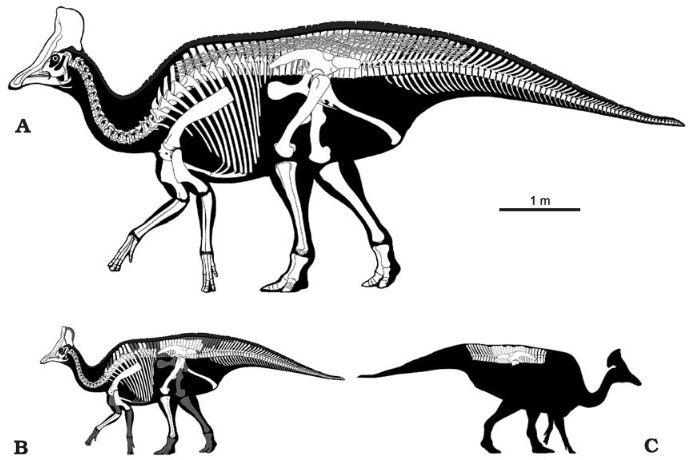 Reconstruction in a quadrupedal gait of Olorotitan arharensis Godefroit, Bolotsky & Alifanov, 2003 (AEHM 2-845, holotype)(A + B) and AEHM 2-846(C). Preserved bones in holotype AEHM 2/845 indicated in gray. Upper Cretaceous of Kundur, Russia. Author : Andrey Atuchin.